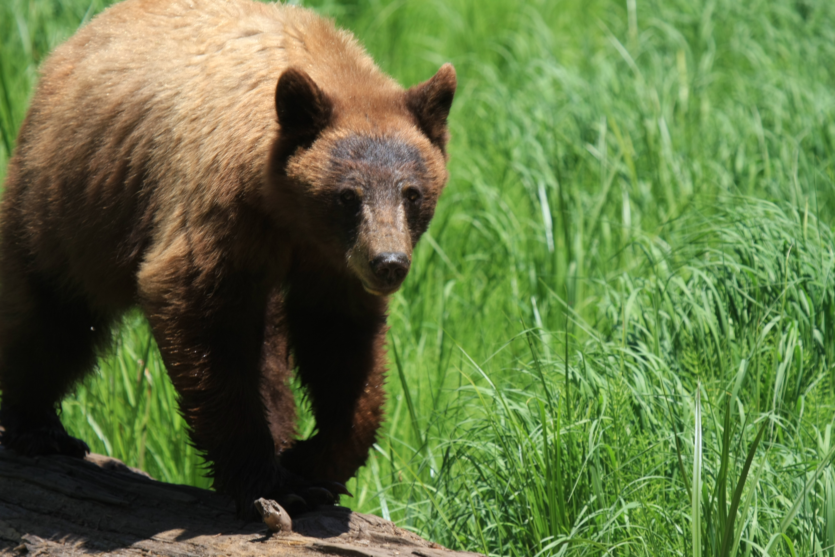 An approaching bear